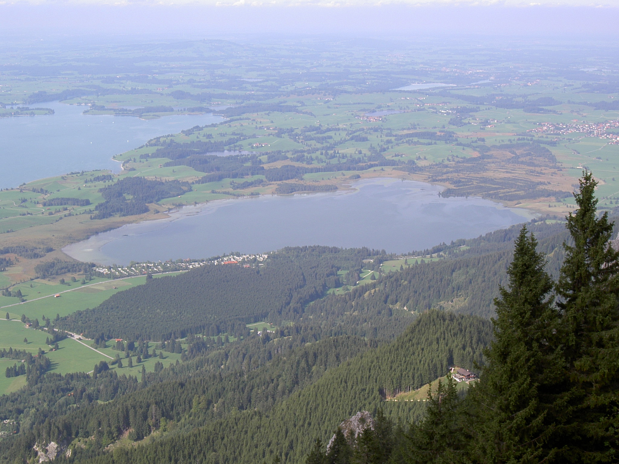 Lake "Bannwaldsee", view from the "Tegelberg" mountain (Germany, Bavaria)